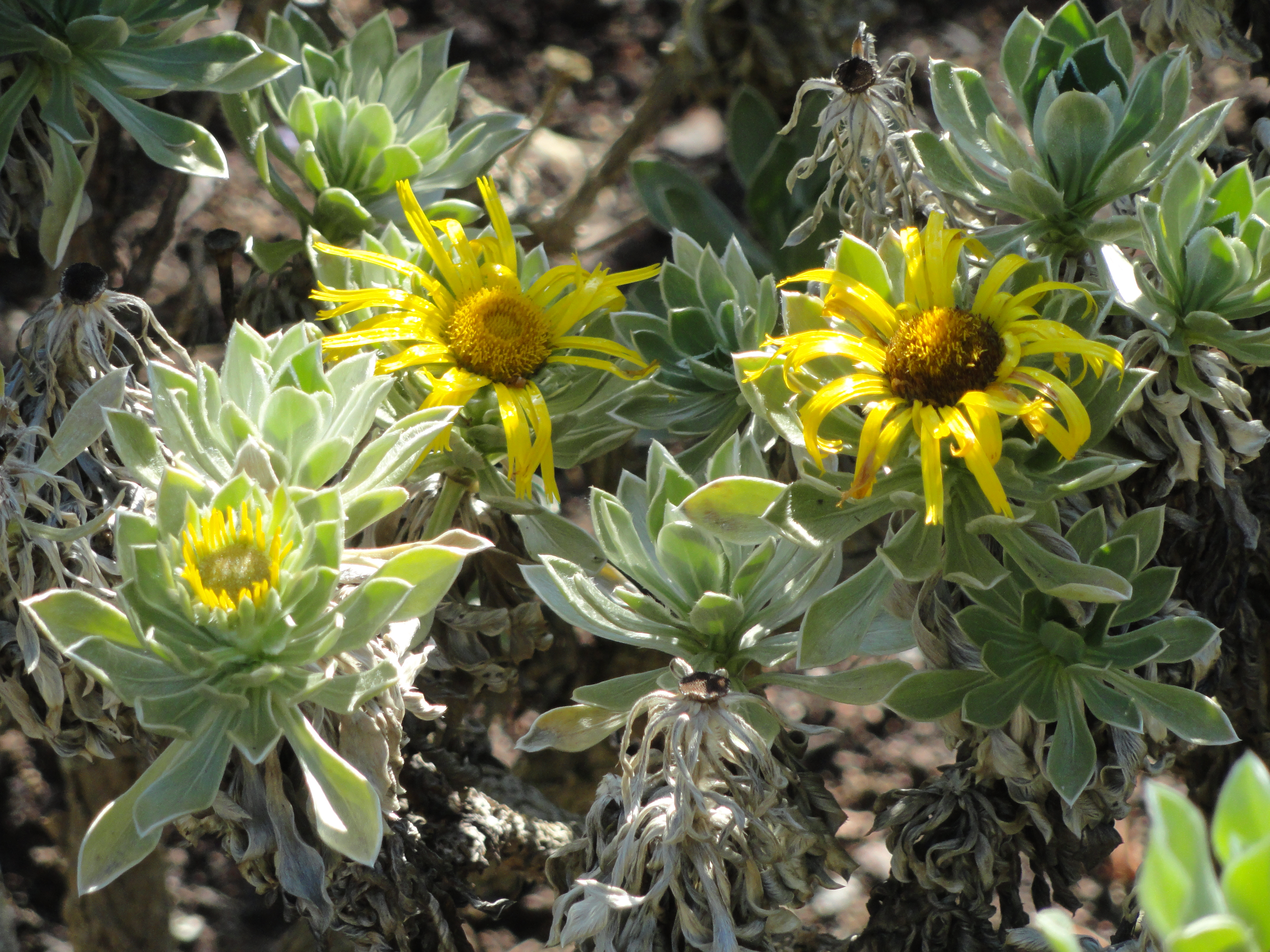 Botanical specimen in the Botanischer Garten, Frankfurt am Main, located at Siesmayerstraße 72, Frankfurt am Main, Germany.